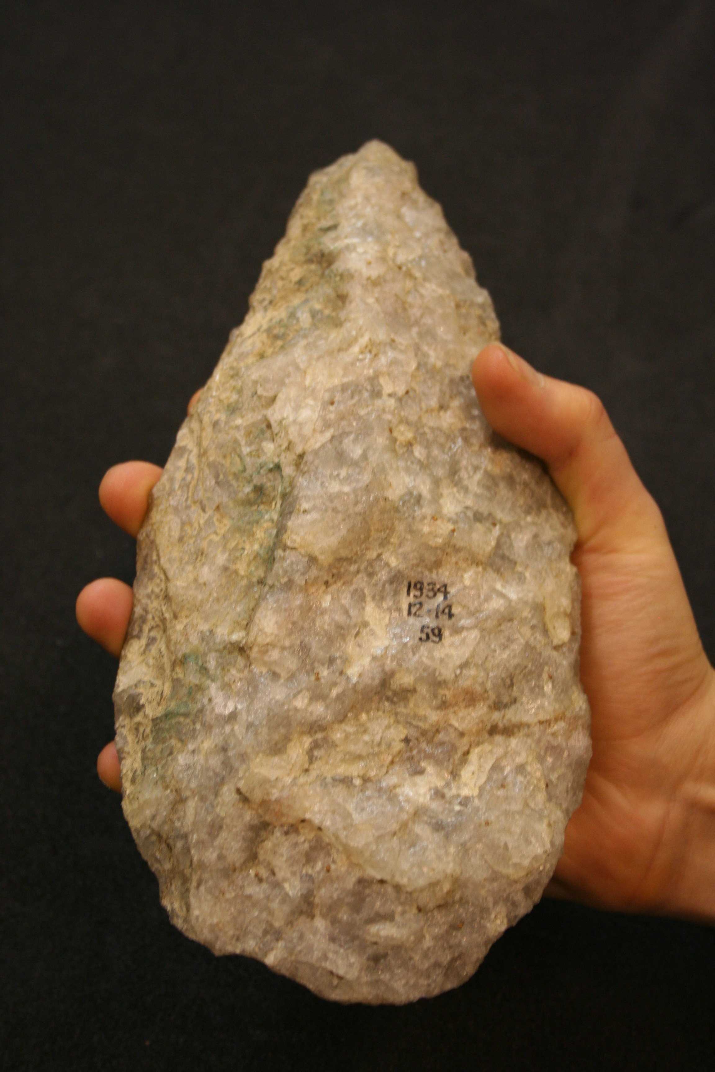 A hand axe from Olduvai Gorge, over 1 million years old. British Museum 1934,1214.59 Taken at the GLAM event on the 13 October 2011 at the British Museum.